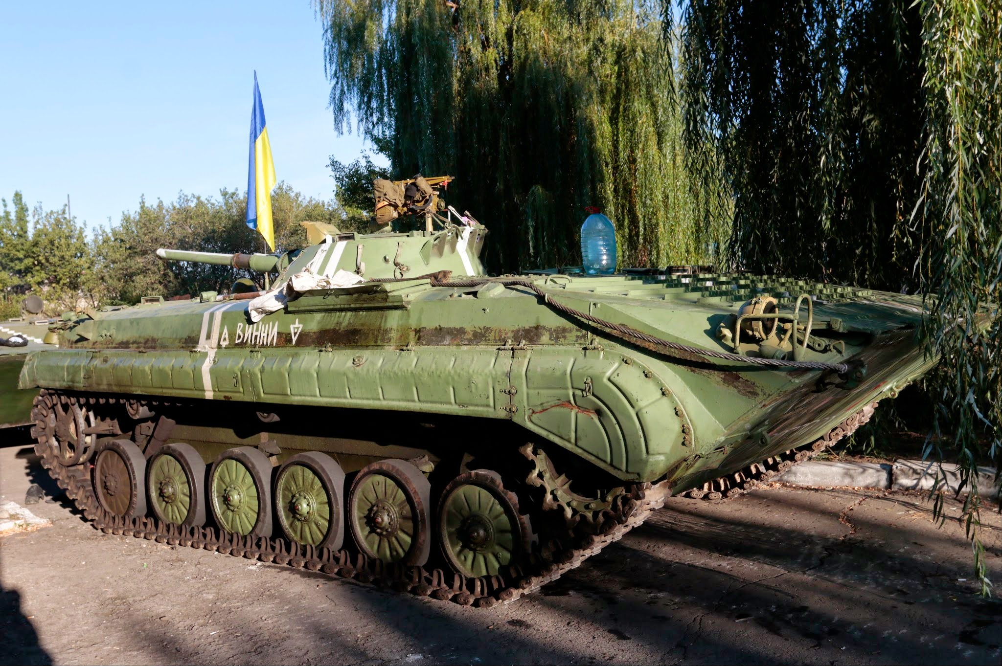 War in Donbass